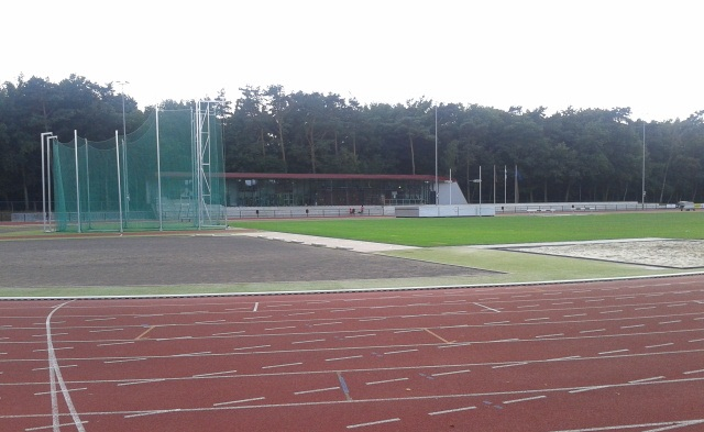 Athletics venue, Heemraadstraat 9, Brakkestein, Nijmegen.